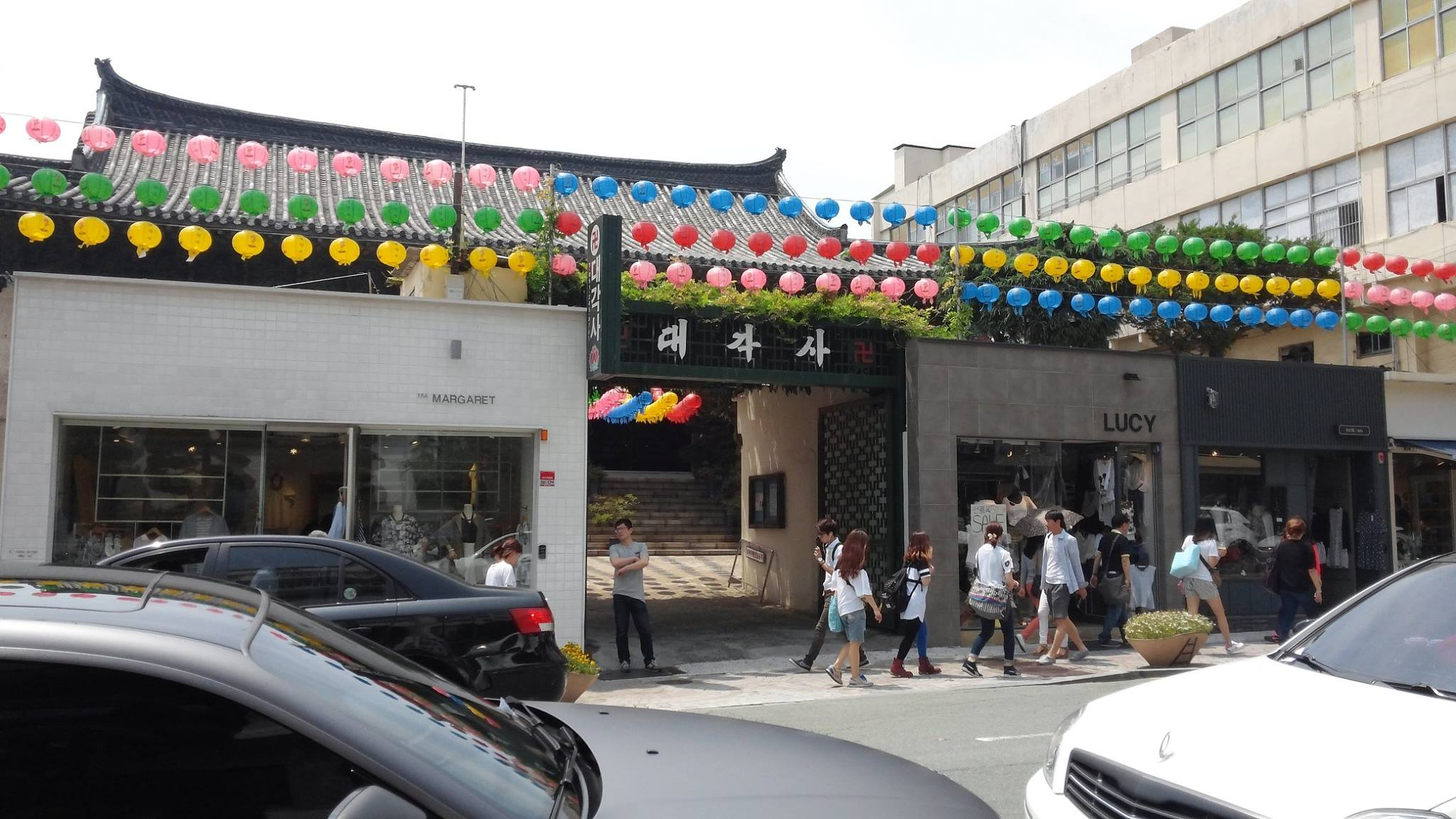 Daegaksa enterance in Busan Date 2014.05 Author 전현표(Jeon Hyeon-Pyo)